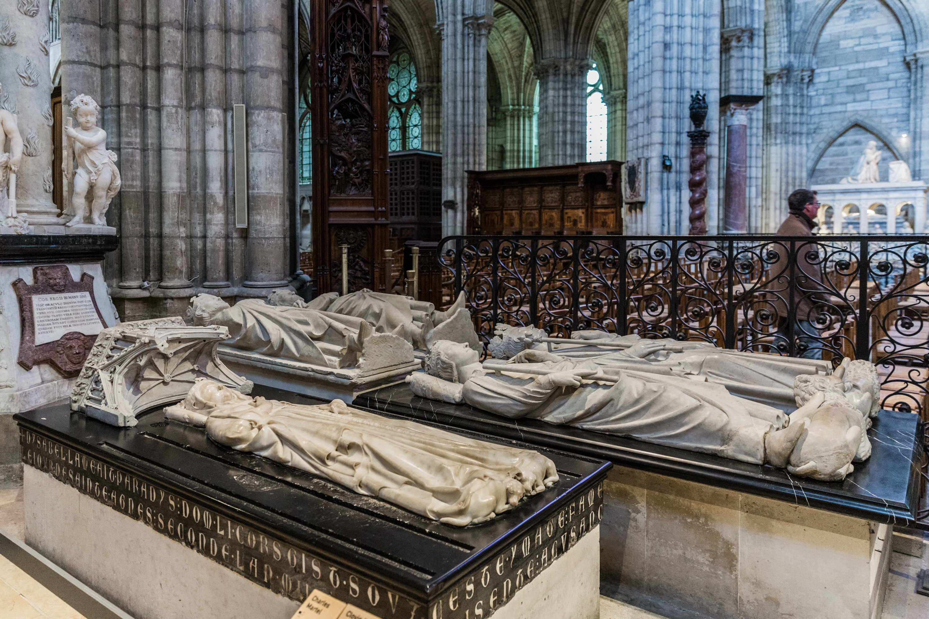 Tombs of the kings of France in Saint-Denis